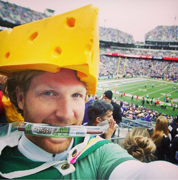 Cheesehead in Stadium